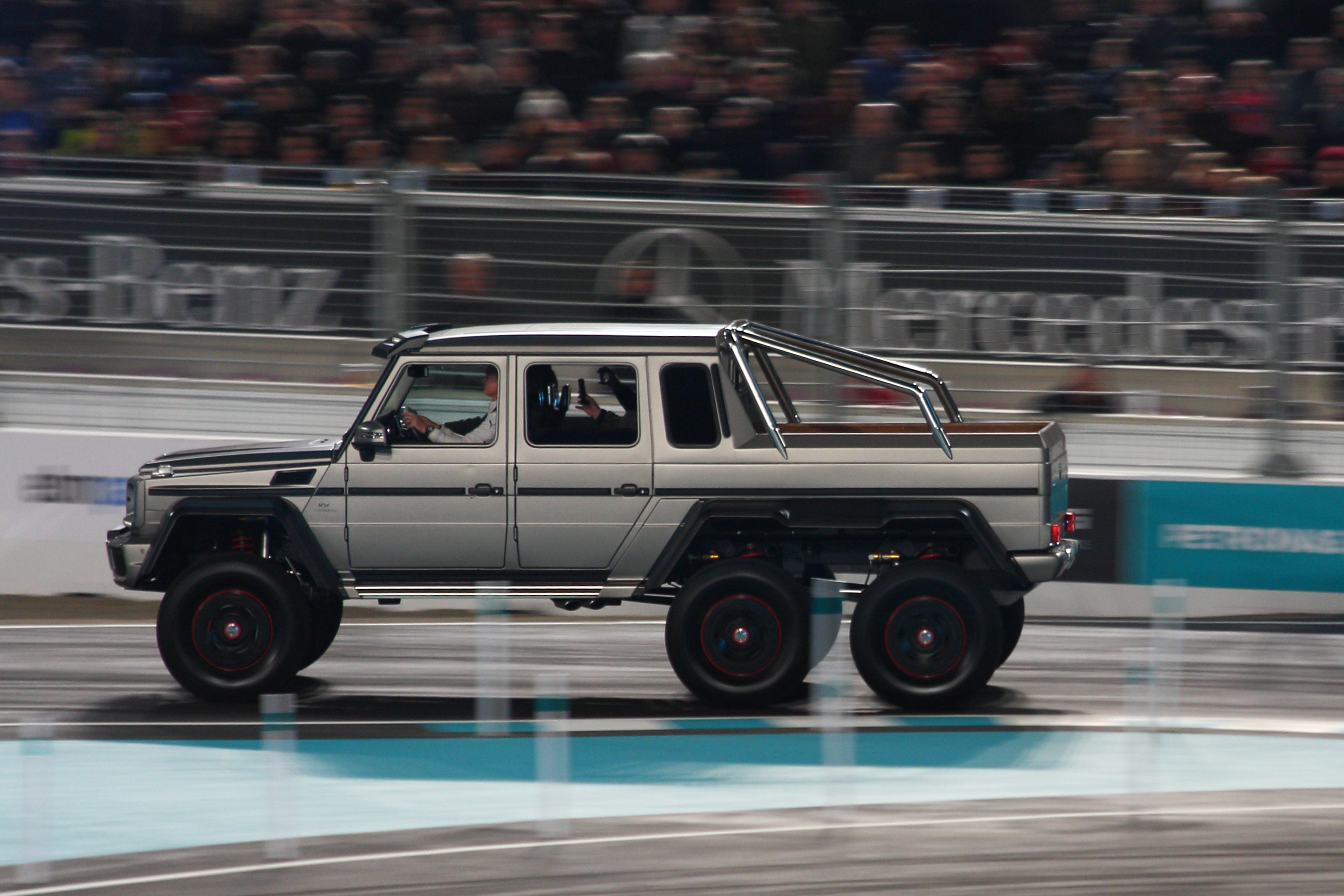 Mercedes-Benz G63 AMG 6x6 Stars and Cars 2015; Driver: David Coulthard